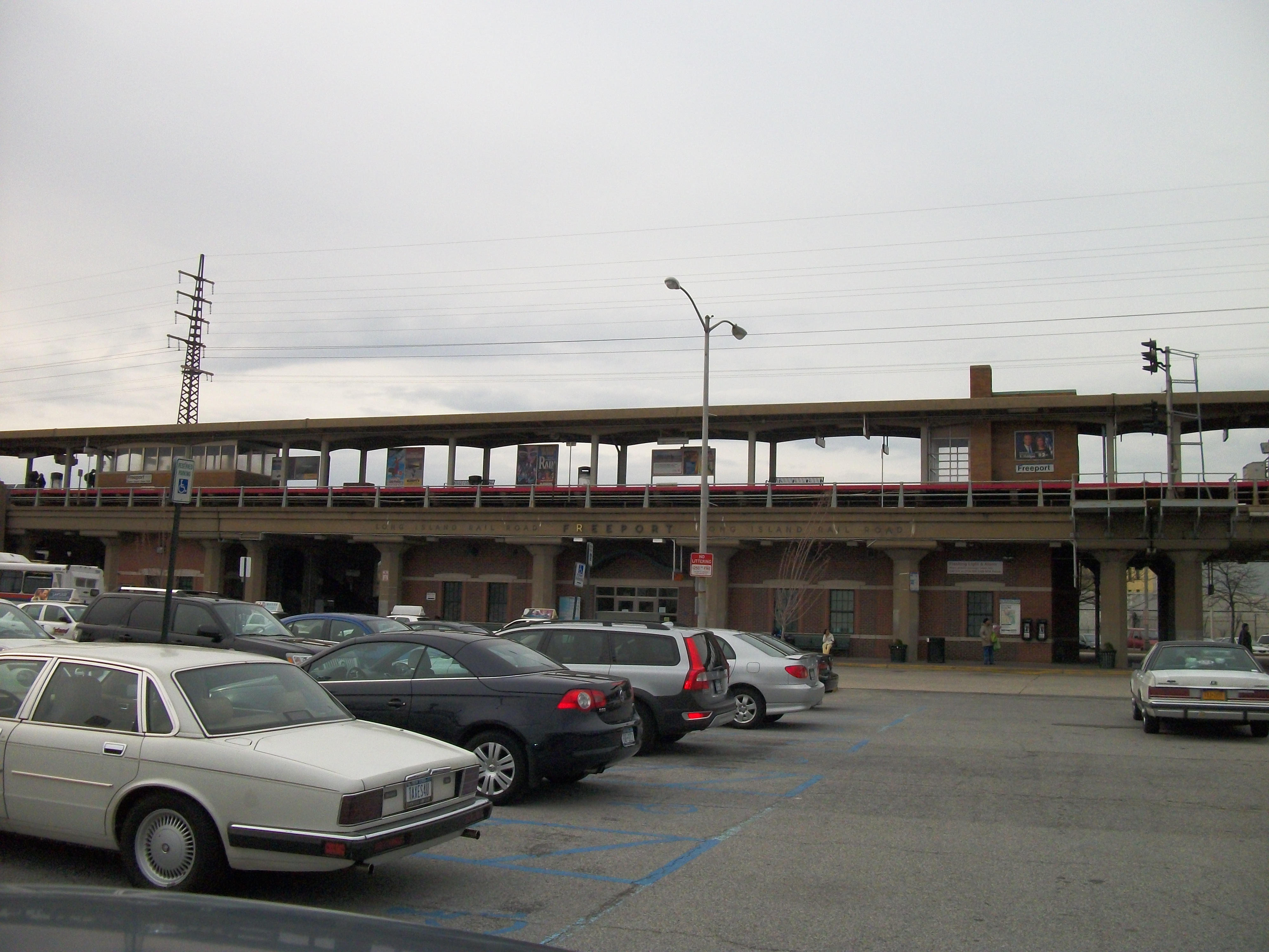 Freeport (LIRR station) as seen from the parking lot in Freeport, New York.